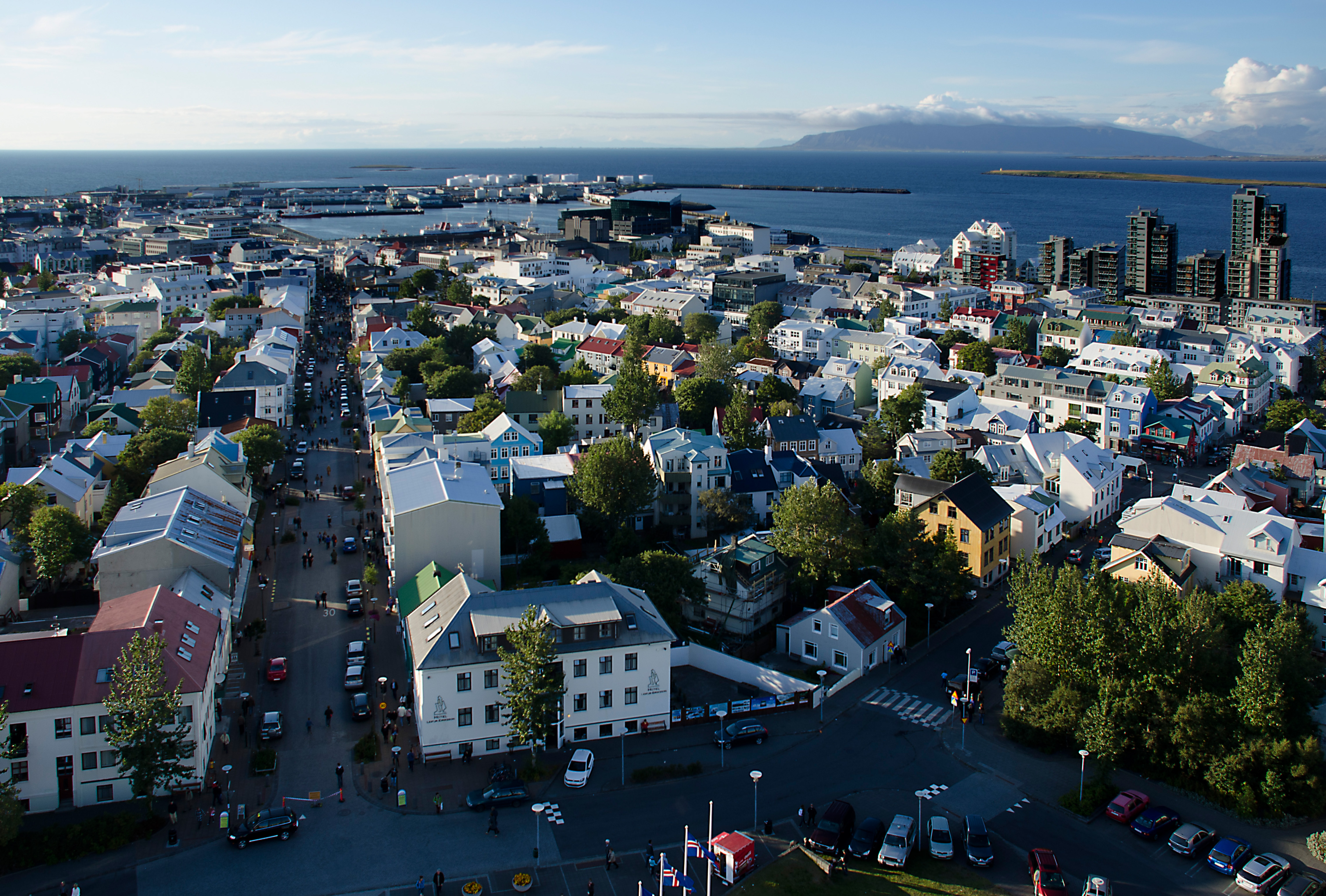 Reykjavík, view from Hallgrimskirka spire towards downtown and harbor